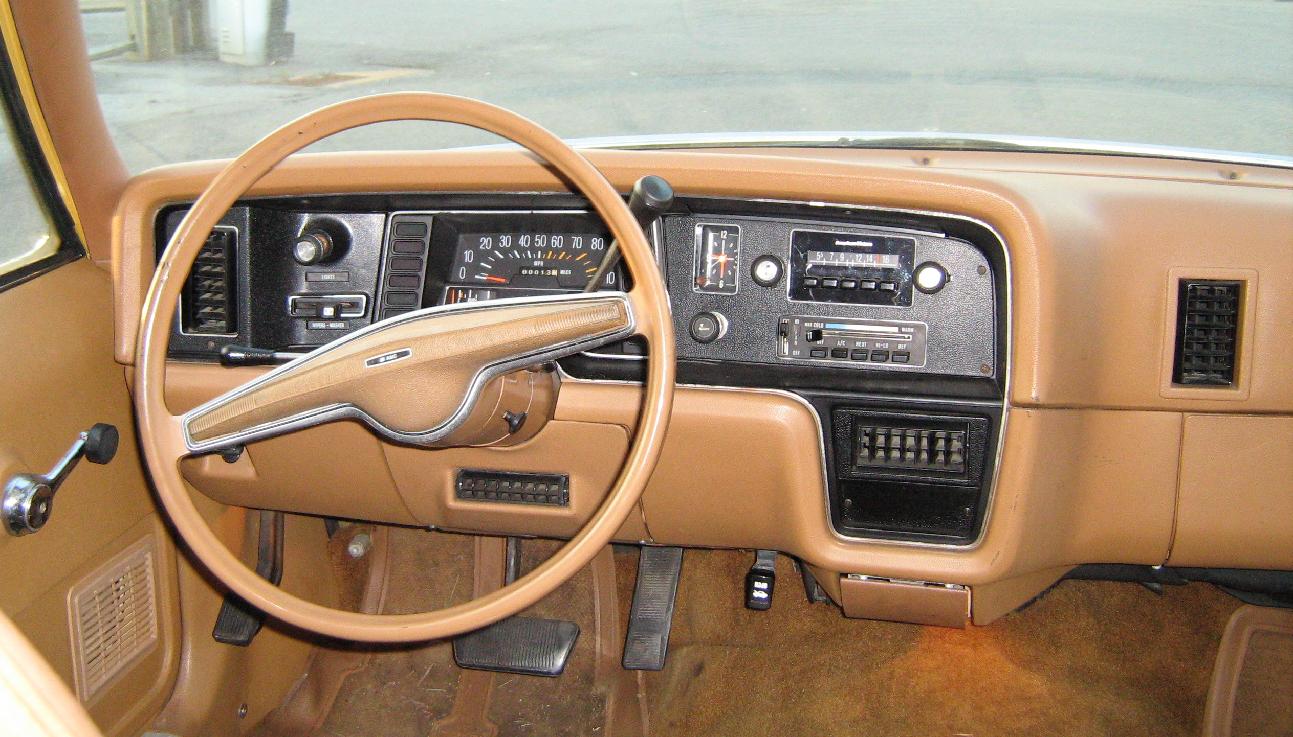 1975 AMC Pacer base model (made by American Motors Corporation) the standard trim version instrument panel, steering wheel, and dashboard.